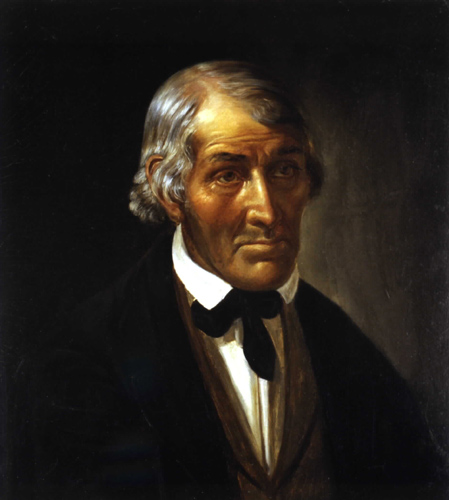 Portrait of Abram Quary, by Herminia Borchard Dassel, 1851. Right side bust portrait of a man; wearing black coat, brown vest, white shirt, black cravat; grey-white hair parted on right, brown eyes; sad expression; dark complexion. Oil on canvas. The Nantucket Historical Association, Accession Number: 1900.0018.001. Note: Abram Quary (1772-1854) was distinguished as Nantucket's last living male Indian. Abram Quary was born shortly after the "Indian Sickness" had decimated the island's Wampanoag population. Quary went whaling as a young man and in later life farmed, made baskets, and prepared clambakes for island residents and visitors. Herminia Dassel, who visited Nantucket in 1851, went to Quary's home in Shimmo and painted several portraits of him. Quary died just three later.